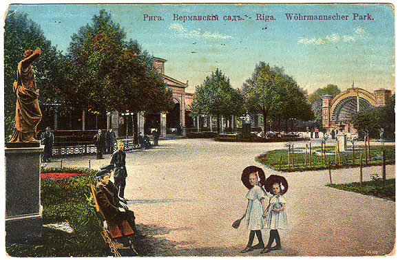 View of Vērmanes Garden Riga, Latvia (at the time a part of the Rusiian Empire)